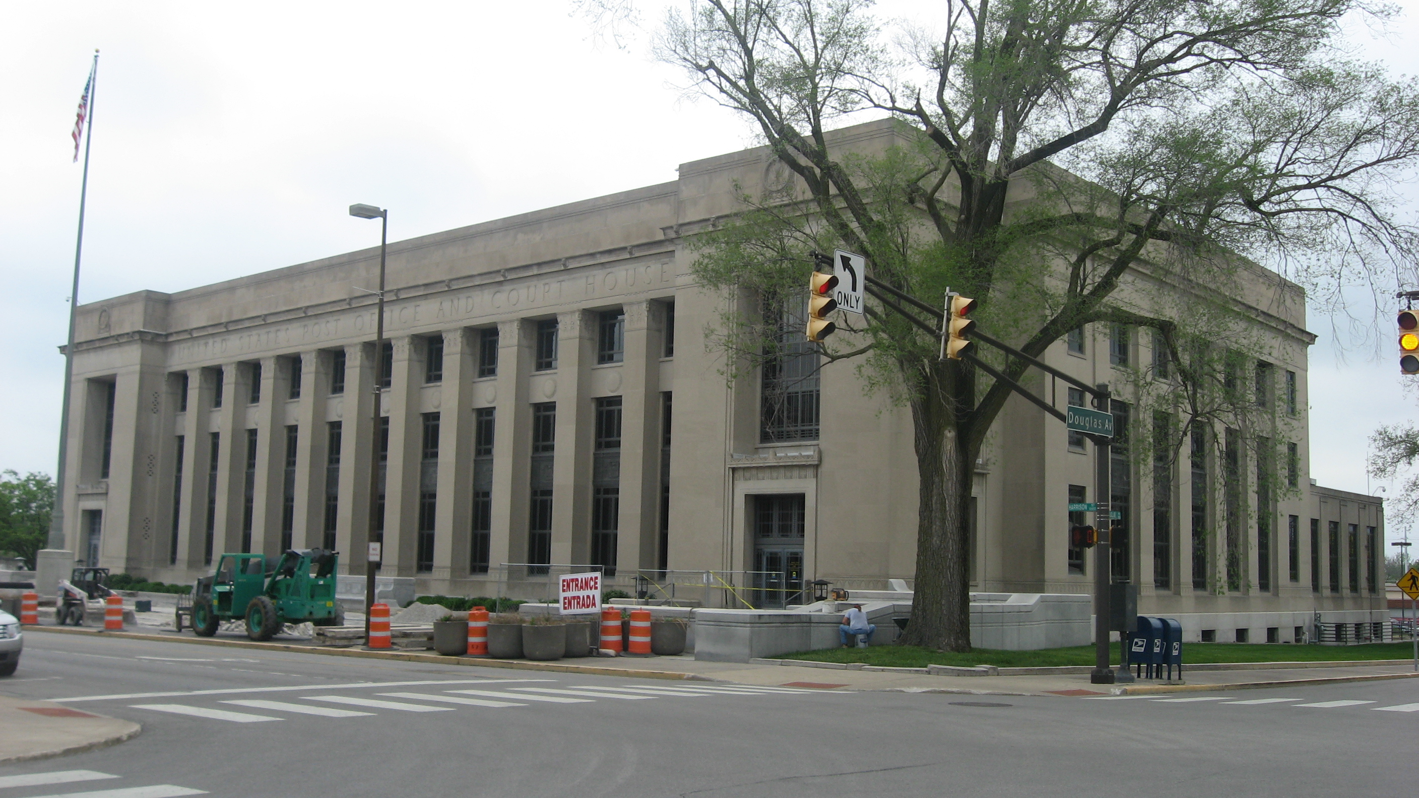 Northern and eastern sides of the E. Ross Adair Federal Building and United States Courthouse, located at 1300 W. Harrison Street in Fort Wayne, Indiana, United States. Built in 1932, it is listed on the National Register of Historic Places.